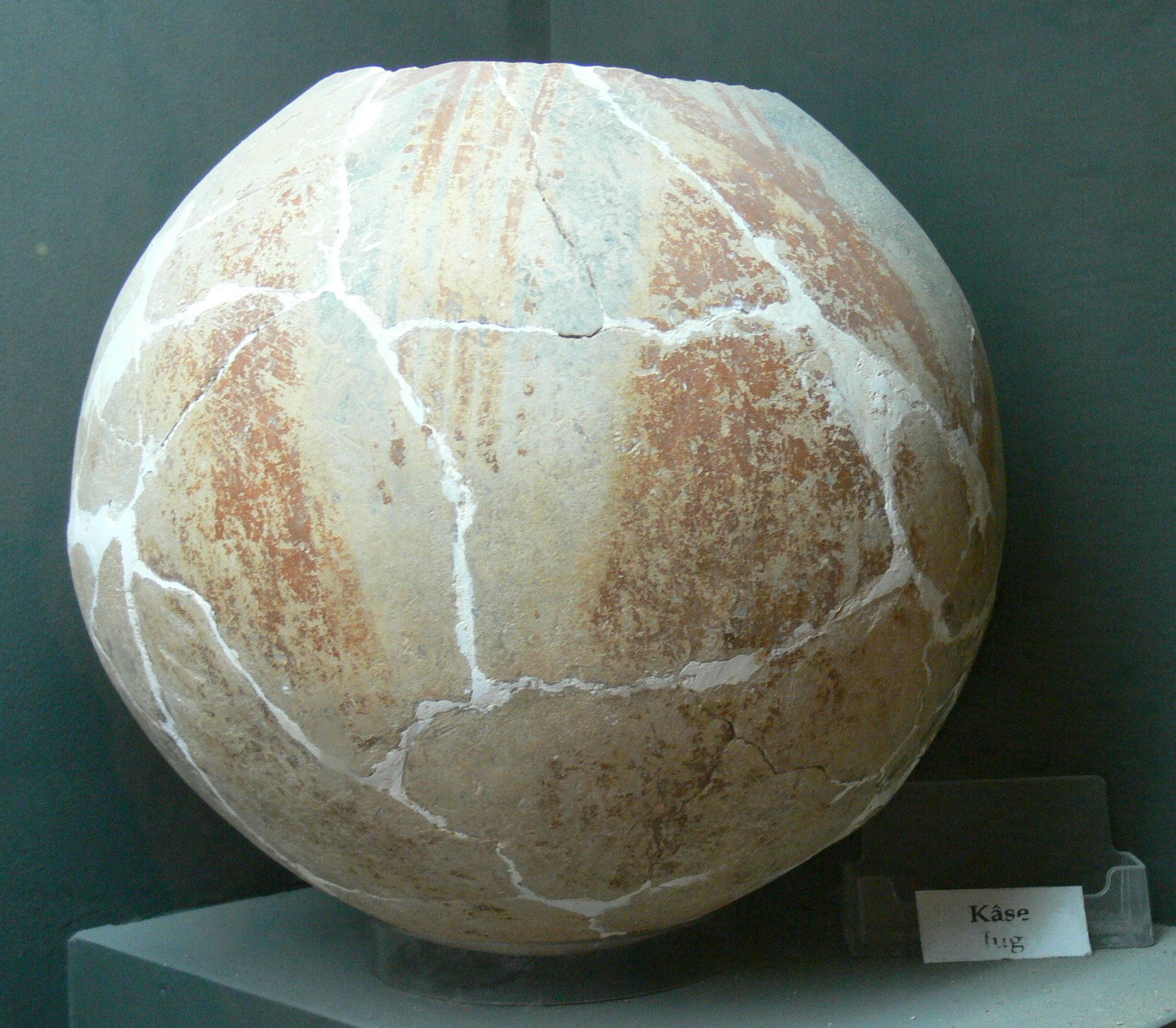 Kyrenia castle ( Northern Cyprus ). Archaeological museum: Objects of the neolithic site at Vrysi - jug.